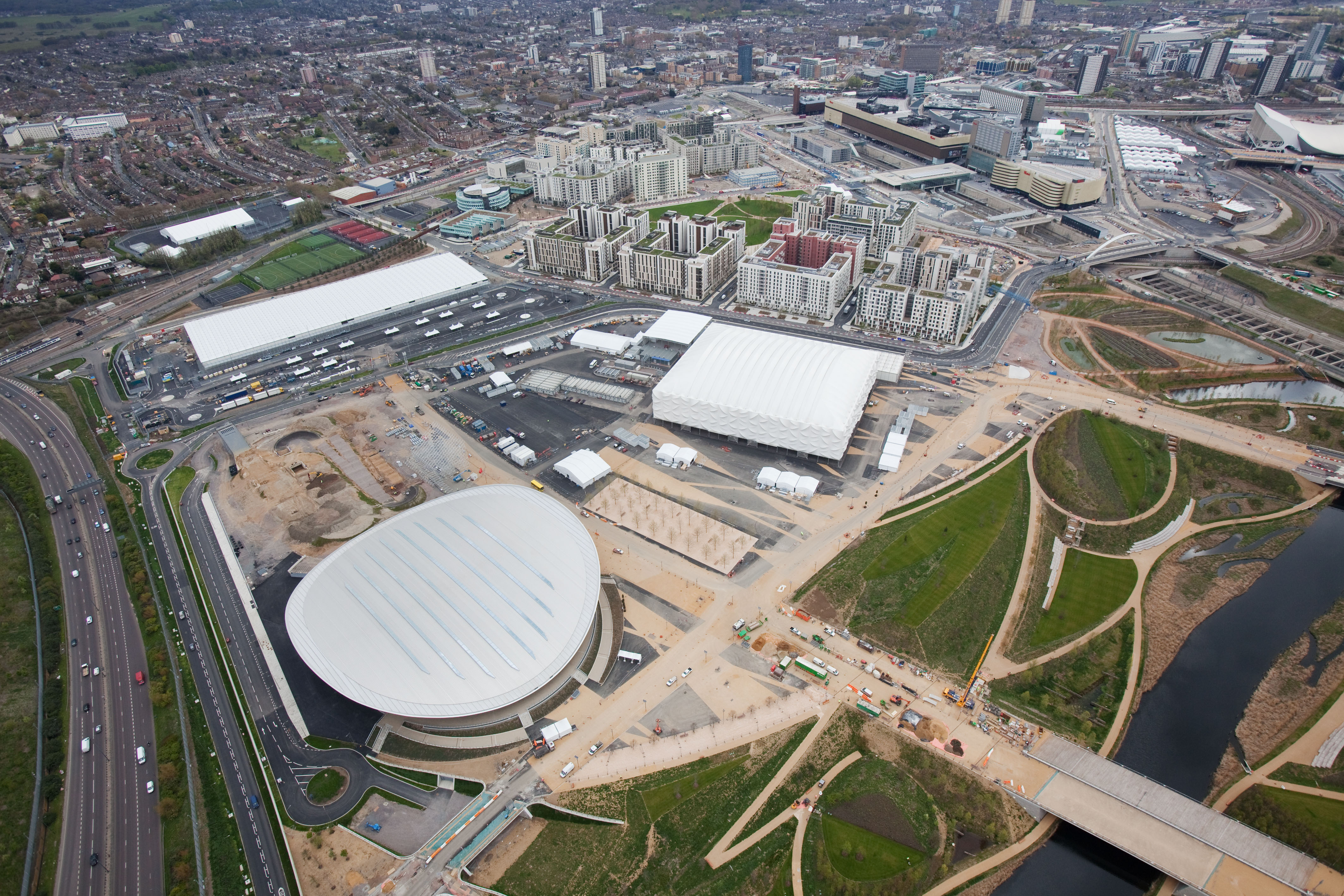 Construction of Olympic Park, London — (April 2012). Aerial view of the Olympic Park looking south east over the Parklands towards the Velodrome, Basketball Arena and the Olympic and Paralympic Village. :*Picture taken on 16 April 2012.